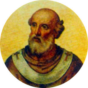 Portait of Pope Severinus in the Basilica of Saint Paul Outside the Walls, Rome